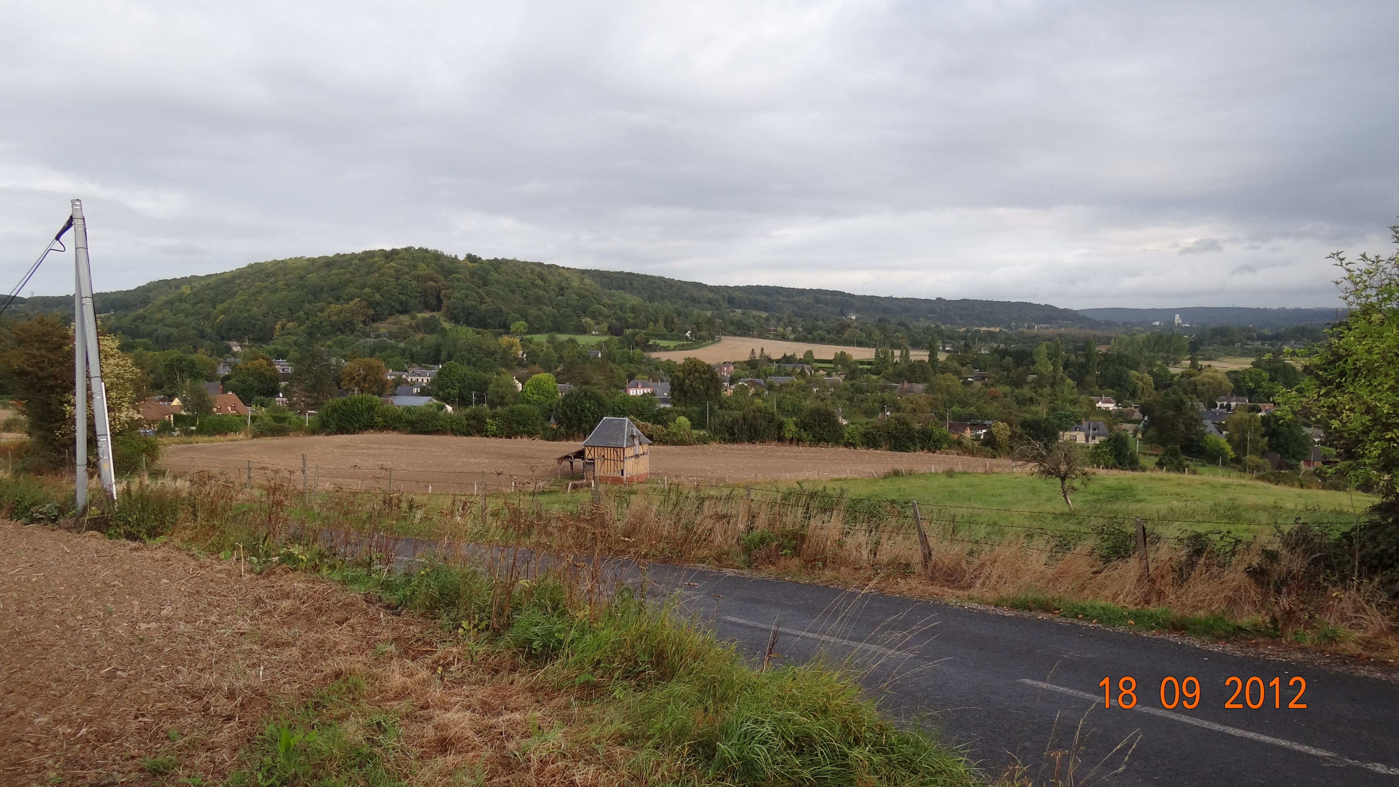 Rue du Village